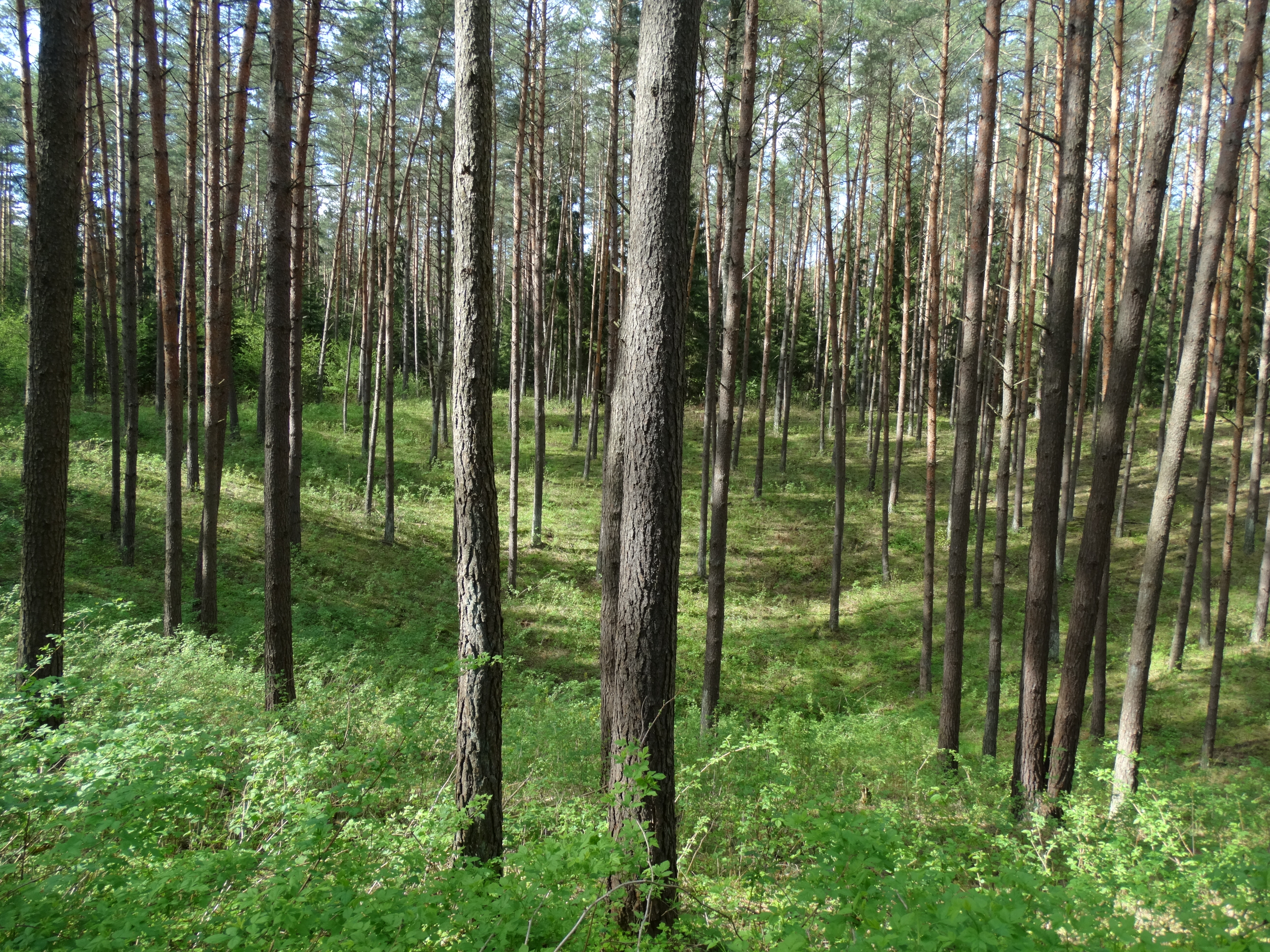 Hollow of wolves, Vilnius District, Lithuania